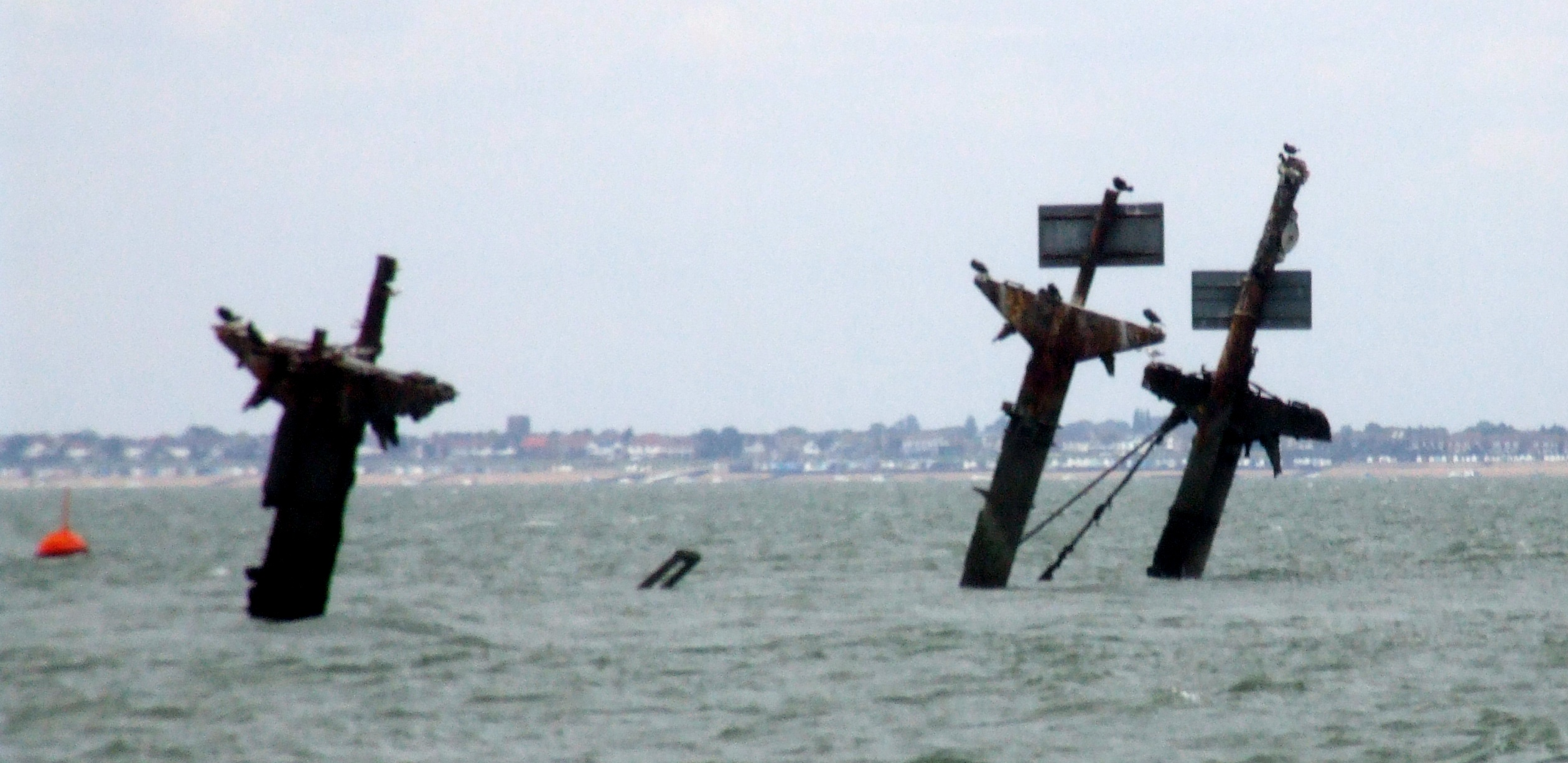 SS Richard Montgomery taken from aboard the PS Kingswear Castle.